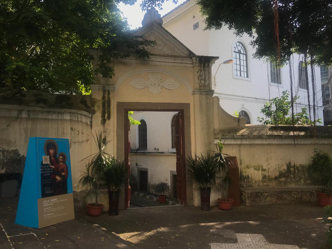 The entrance of the Treasure of Sacred Art of St. Joseph’s Seminary.